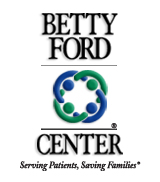 Betty Ford Center Logo